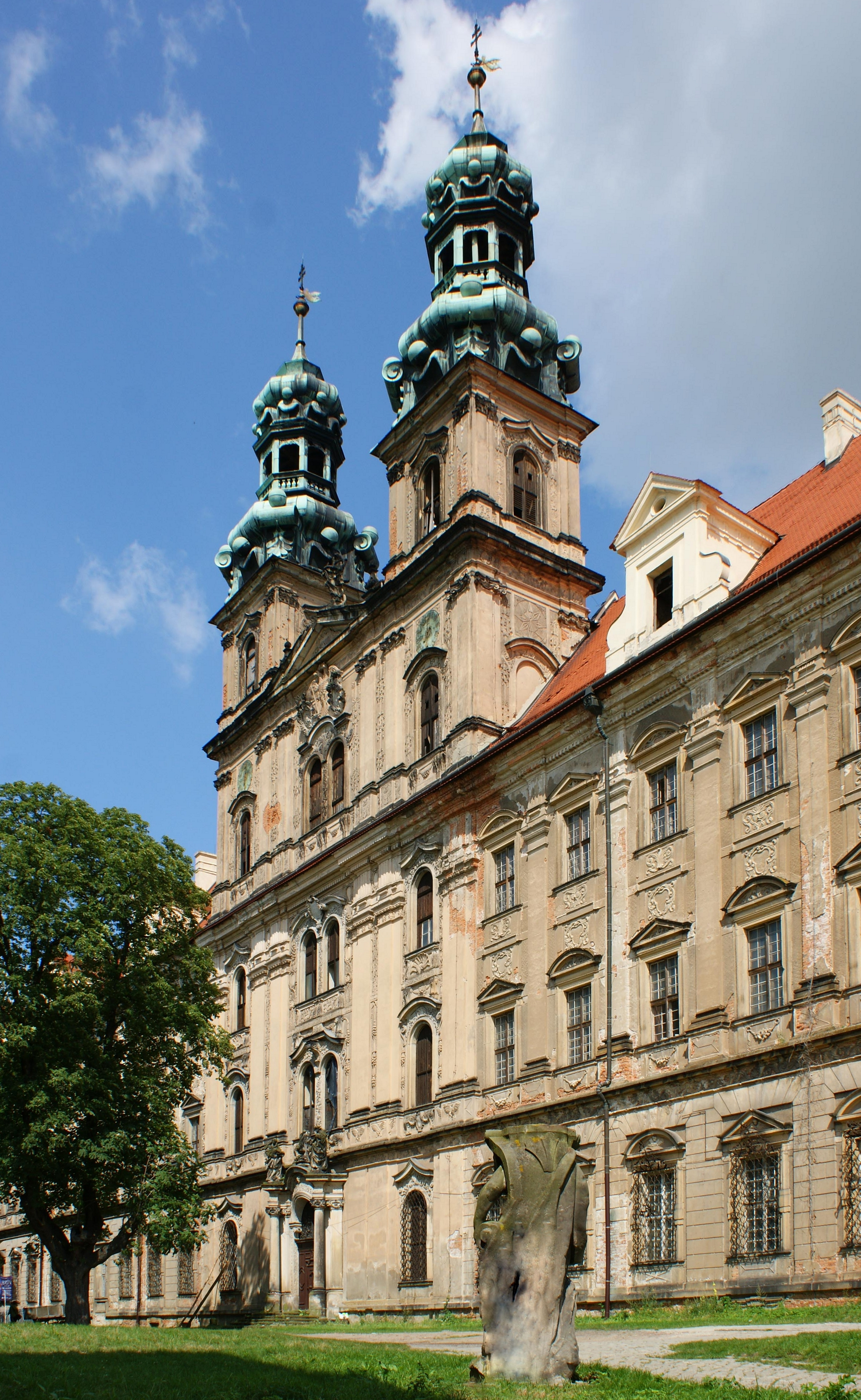 St Mary basilica in Lubiaz